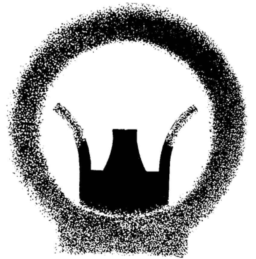 M16 rifle correct sight alignment